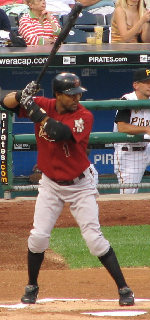 Willy Taveras during an at bat, on the August 24th, 2006 game at PNC park with the Pittsburgh Pirates playing against the Houston Astros.